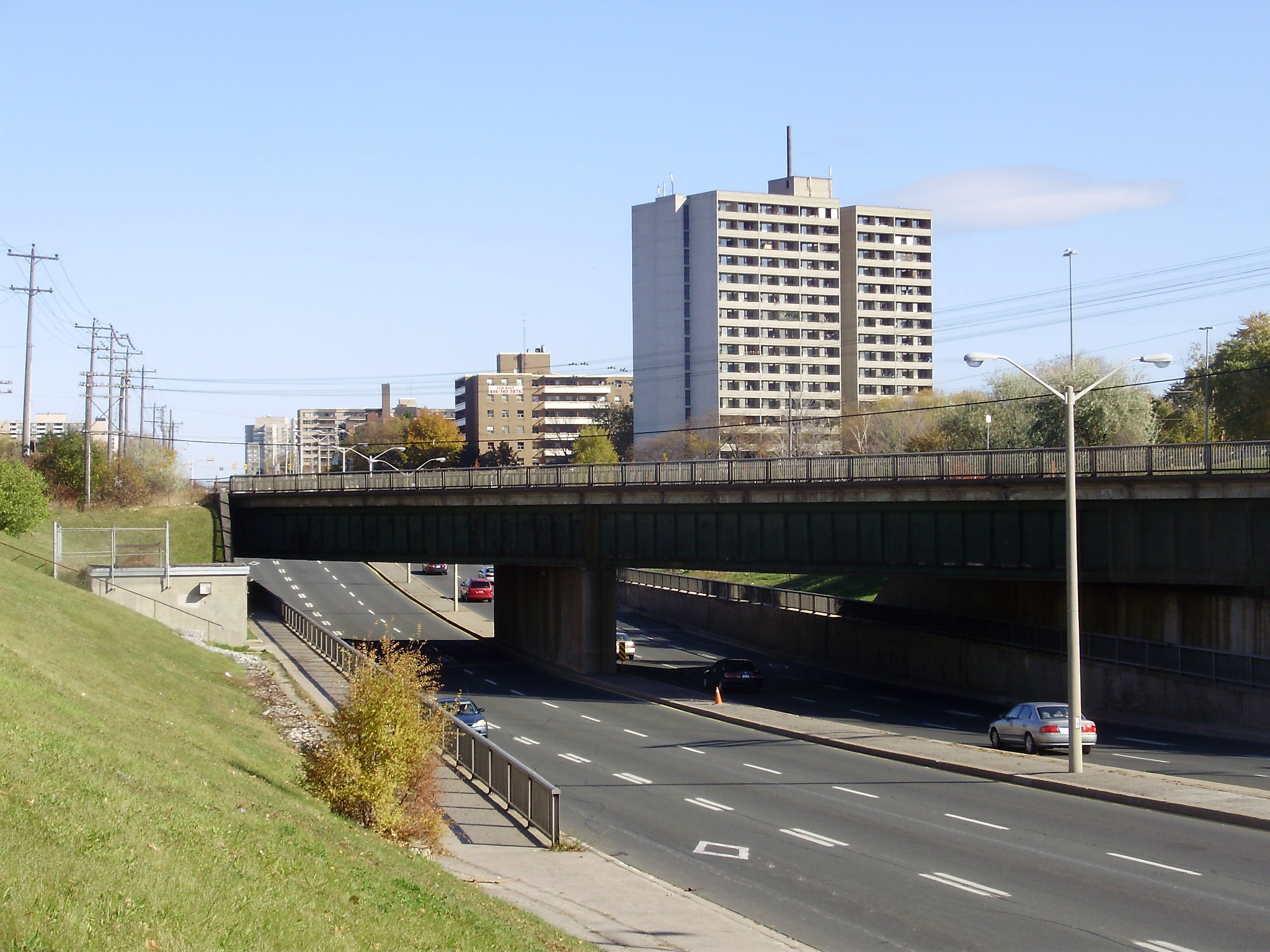 Immediately east of Bellamy Avenue, Eglinton Avenue East dives beneath the Canadian National Railway line and travels into the Scarborough Village neighbourhood in Scarborough, Ontario, Canada.